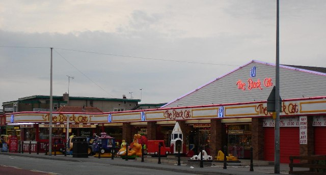 All the fun of the fair at Towyn. Main road through Towyn showing the amusements at the centre of the caravan parks